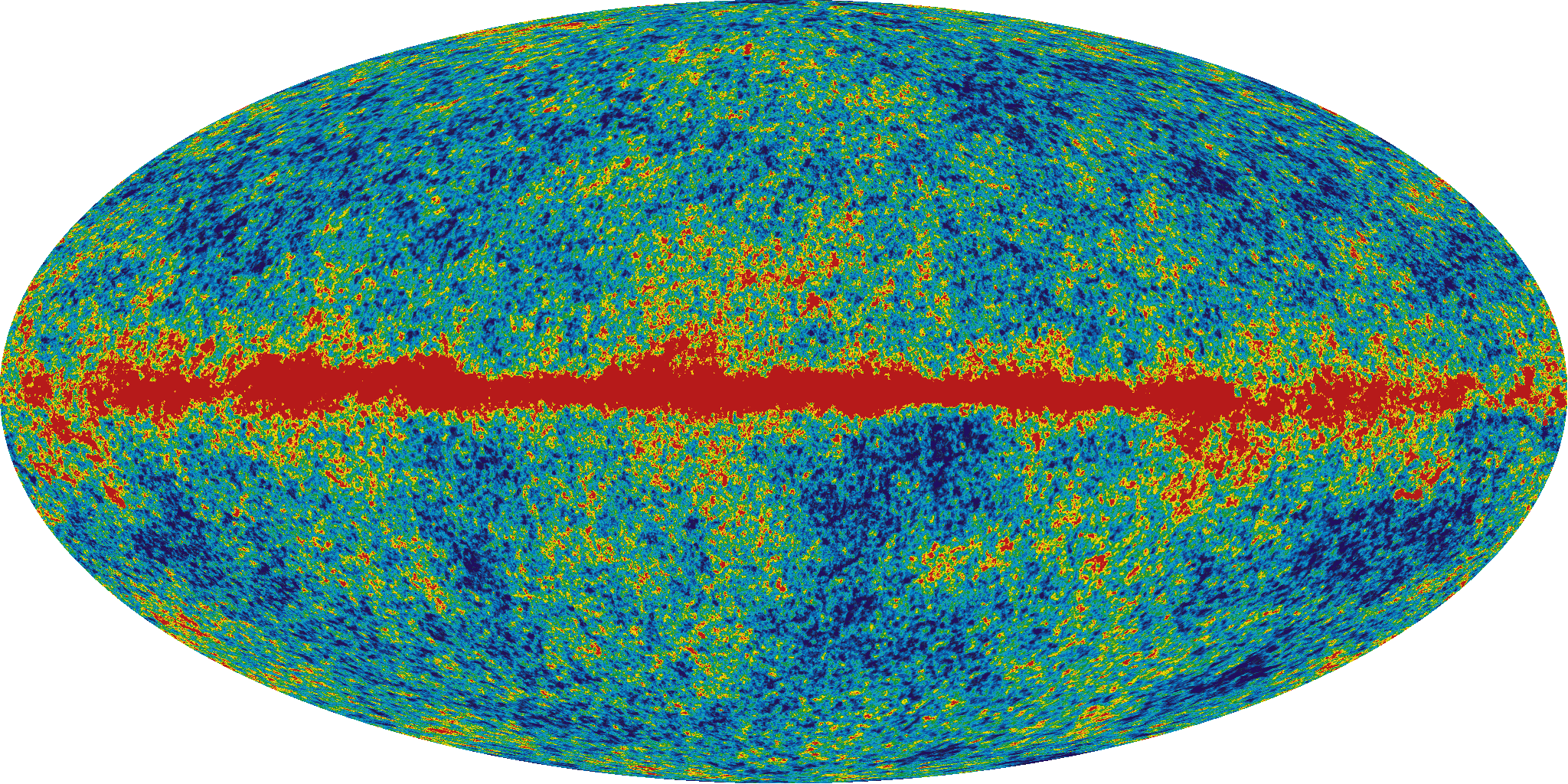 Full-sky temperature map taken by NASA'a Wilkinson Microwave Anisotropy Probe at 94 GHz: 2006 version. Temperature range of ±200 mK is shown